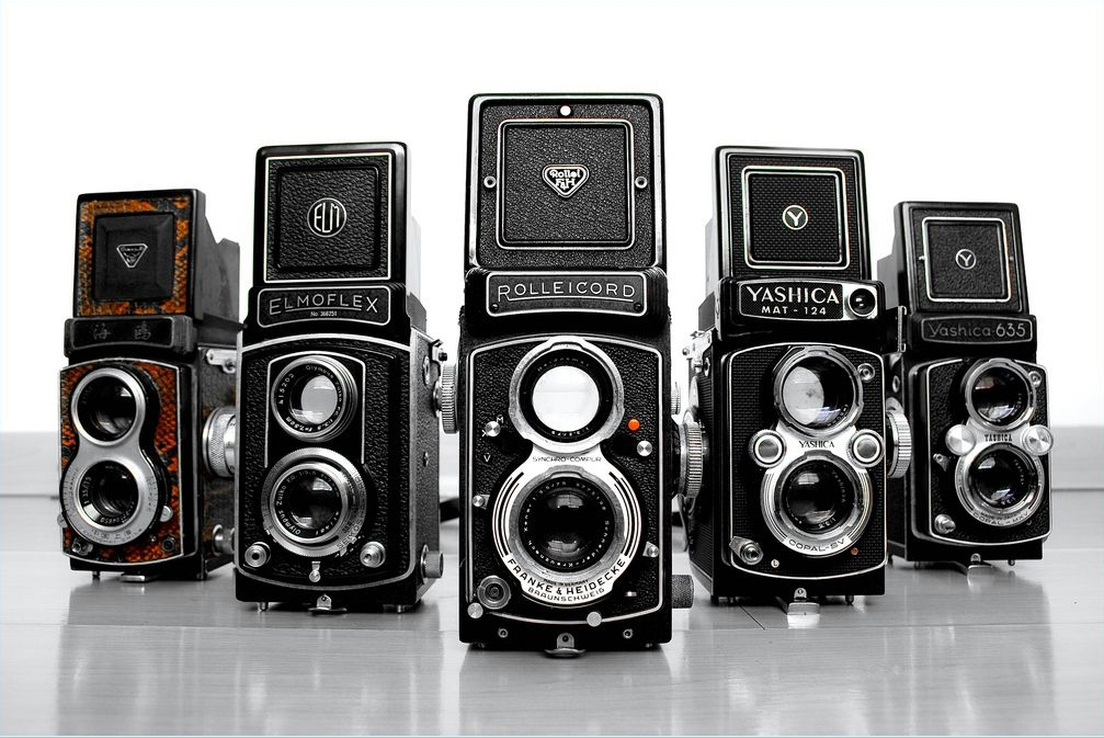 Several TLR cameras in a row.